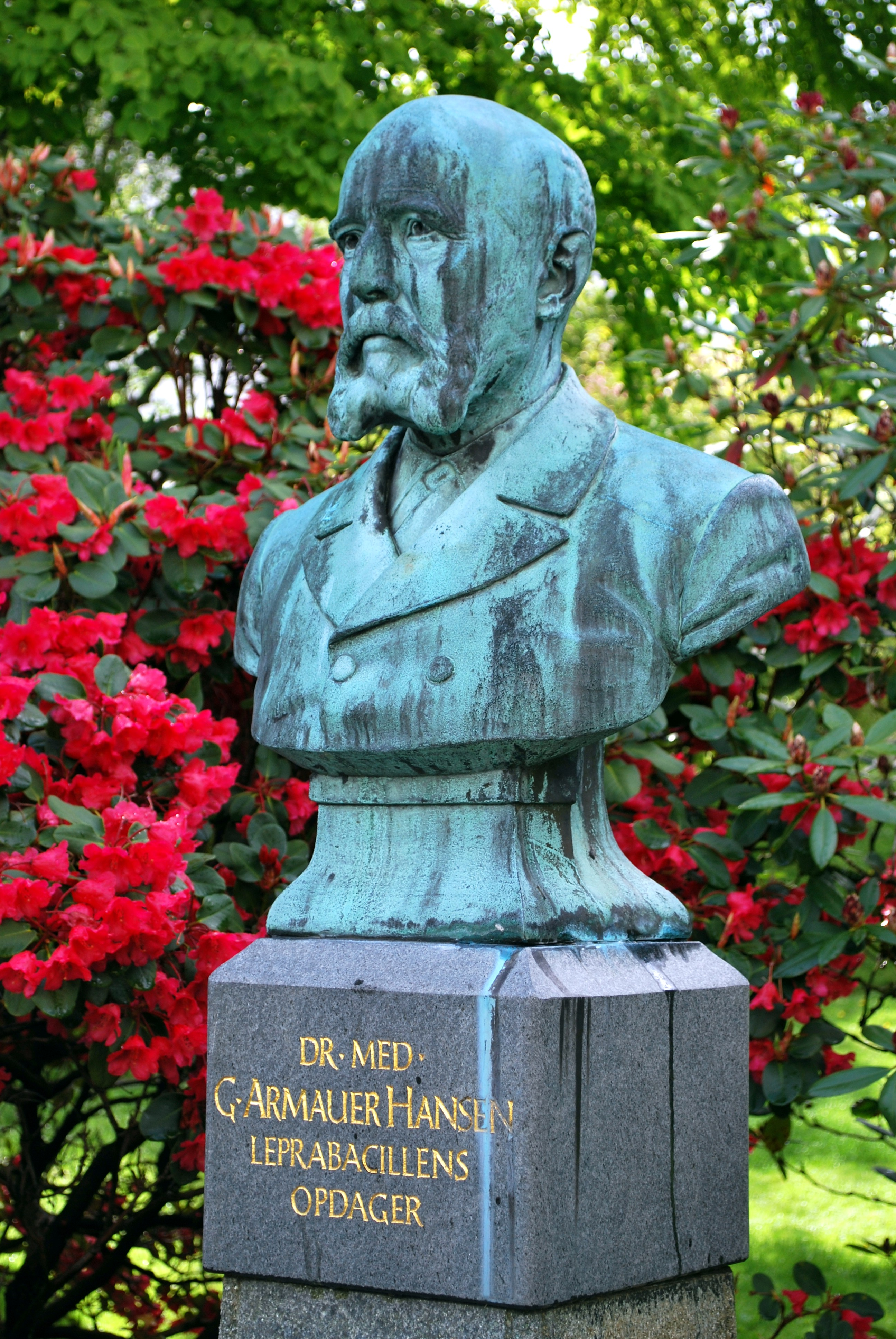 Statue of Dr. Armauer Hansen by artist Jo Visdal (born 1861, died 1923), Botanical garden, University of Bergen, Norway.